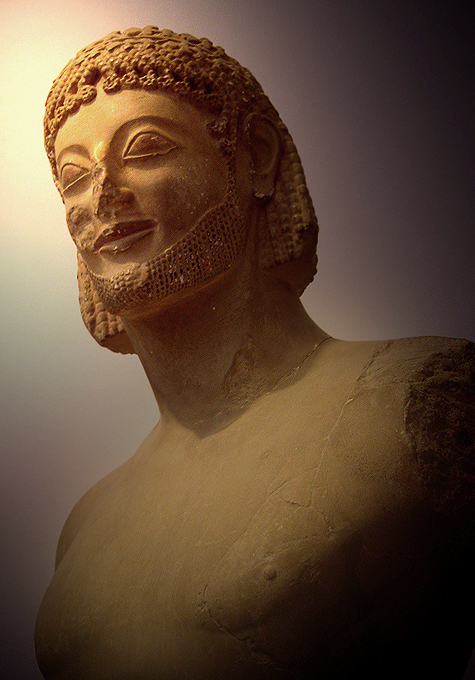 Kouros, Acropolis Museum, Athens